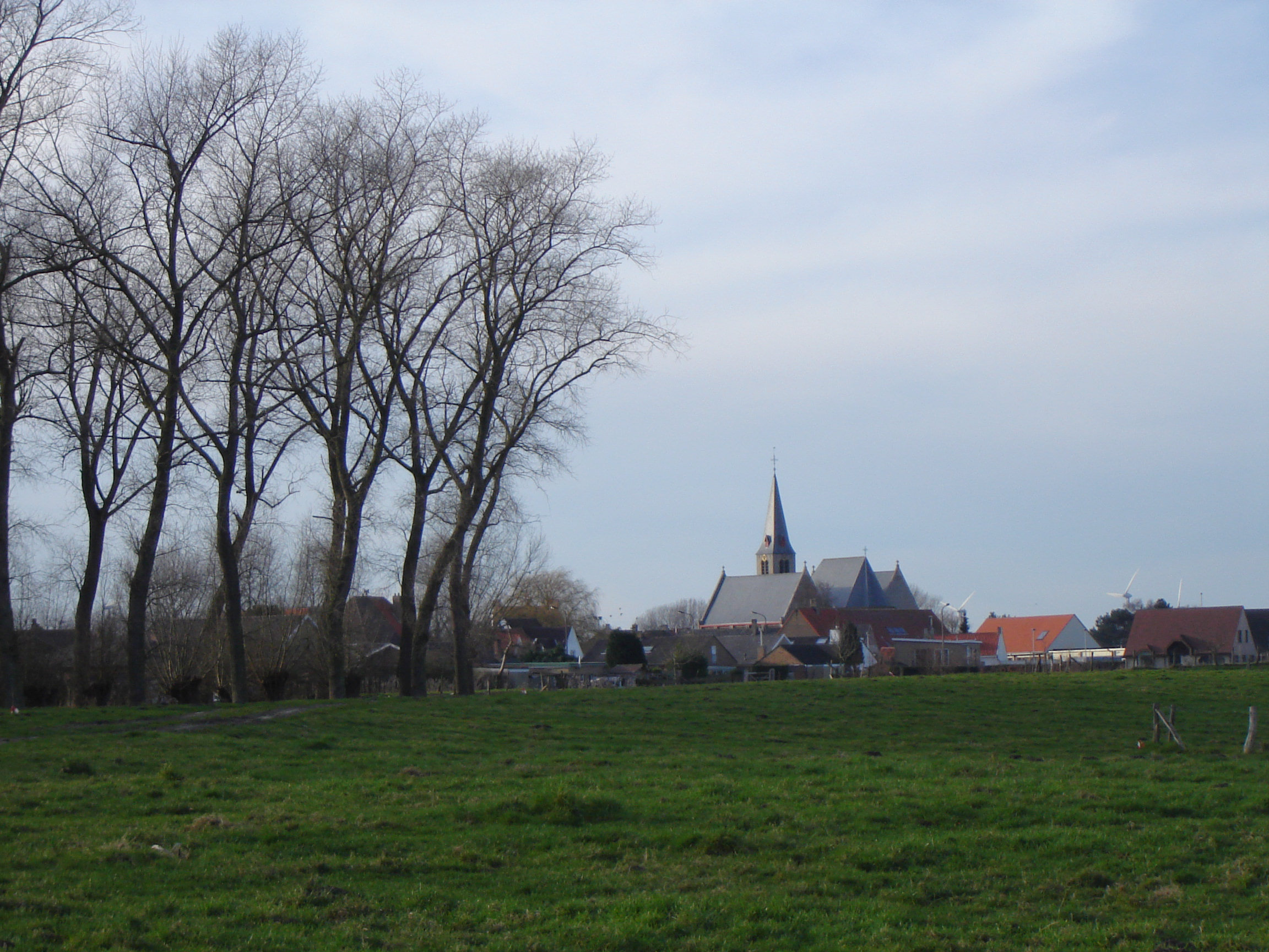 View on Koolkerke. Koolkerke, Brugge, West Flanders, Belgium.